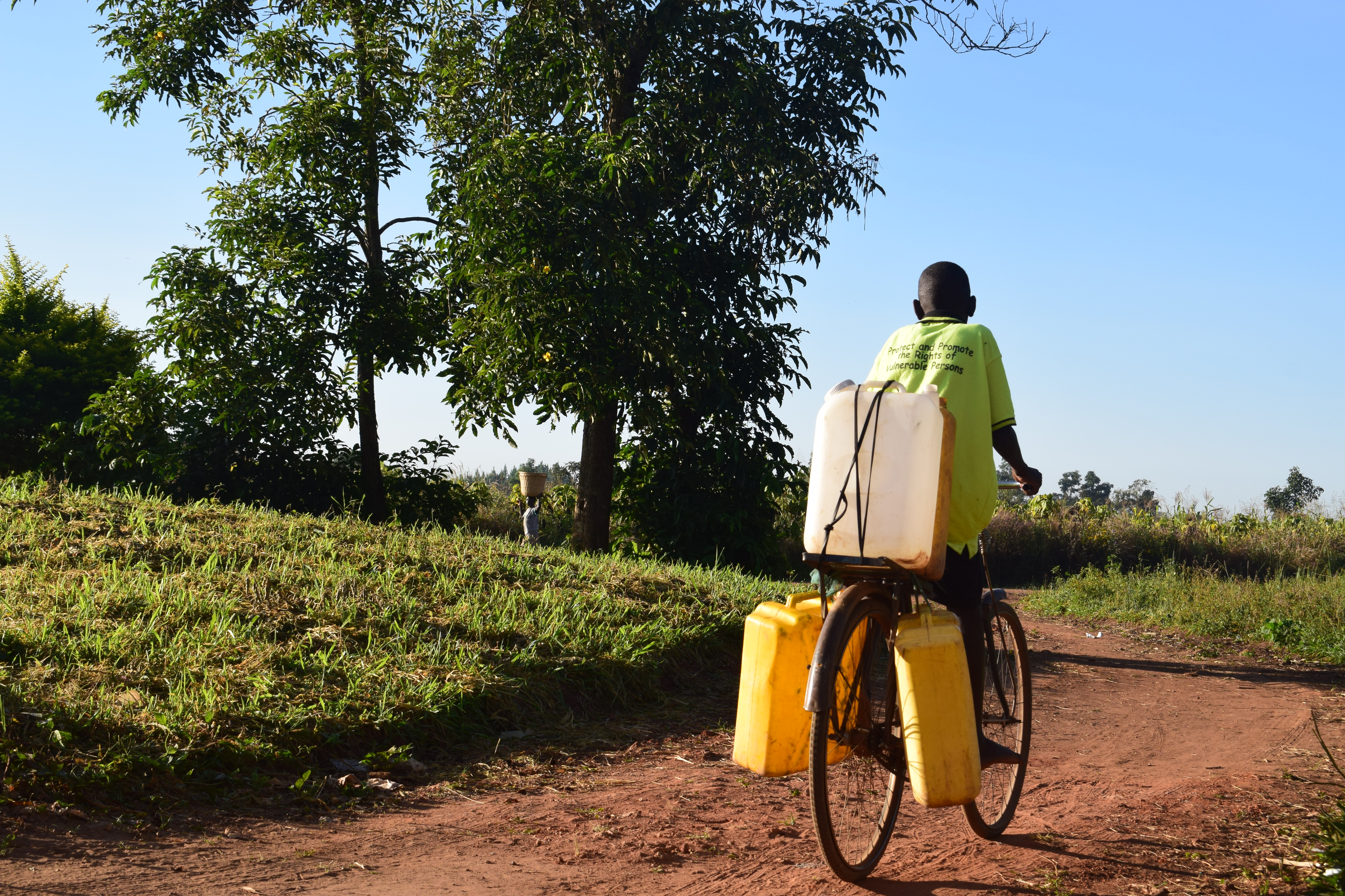 A boy riding a two wheel bicycle in Oyam district This is an image with the theme "Africa on the Move or Transport" from: Uganda